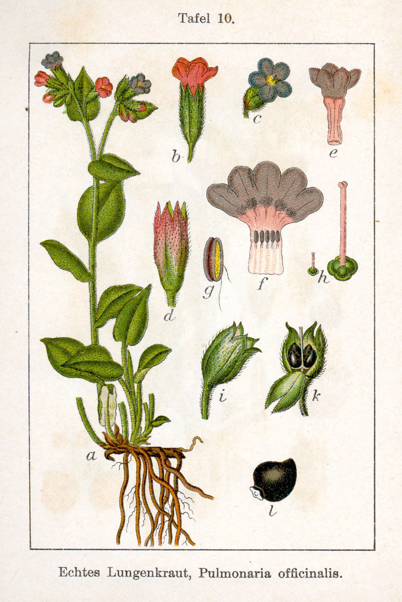 Pulmonaria officinalis L. Original Description Echtes Lungenkraut, Pulmonaria officinalis